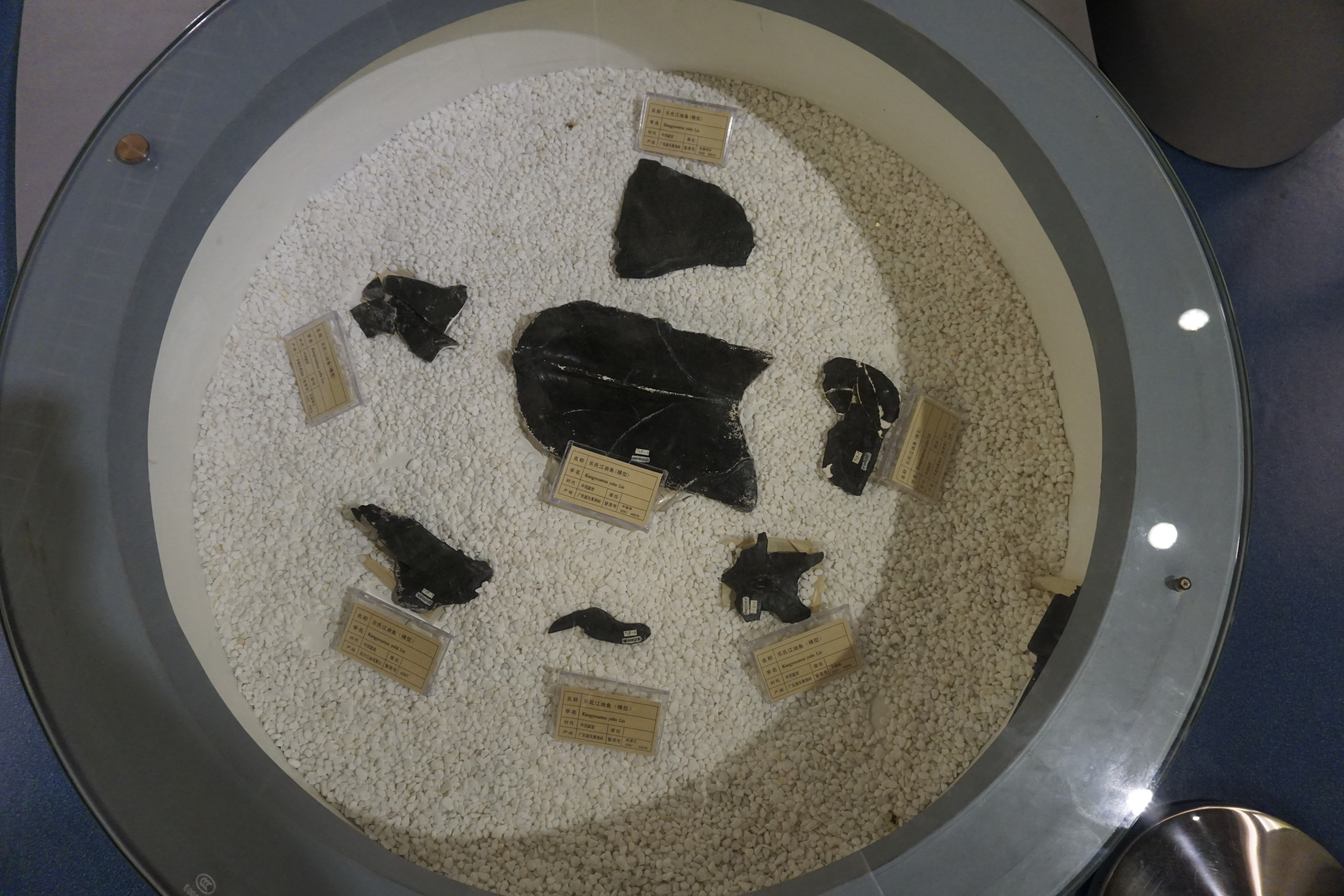 Kiangyousteus yohu (photoed in Nanjing Geological Museum)